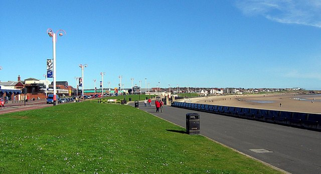 Promenade: Seaburn Sands